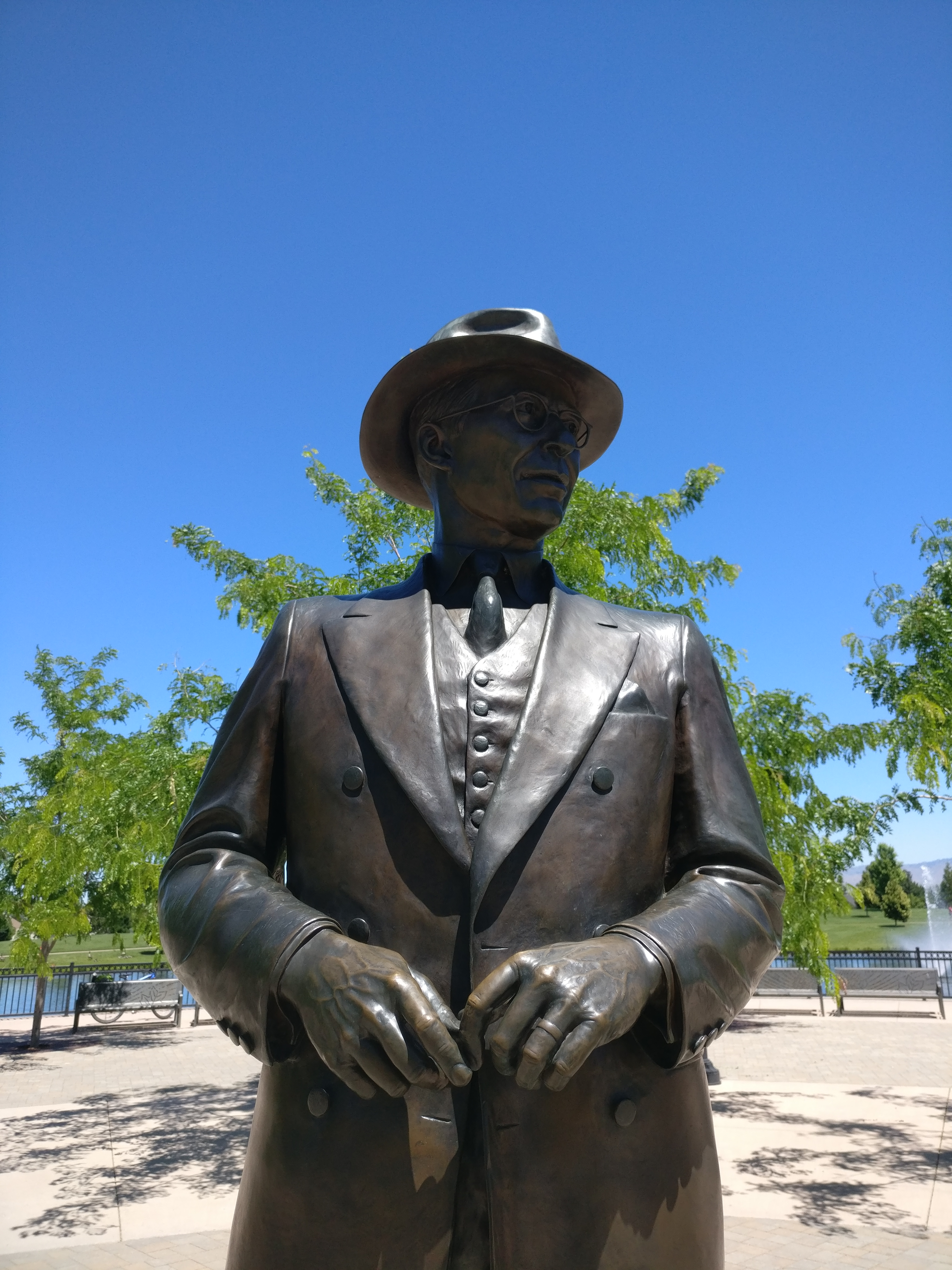 The bronze statue of Julius M. Kleiner in the park which bears his name, based on a 1940's photograph taken at an agricultural fair where he bought a prize cow, looking quite dapper in his suit and fedora.